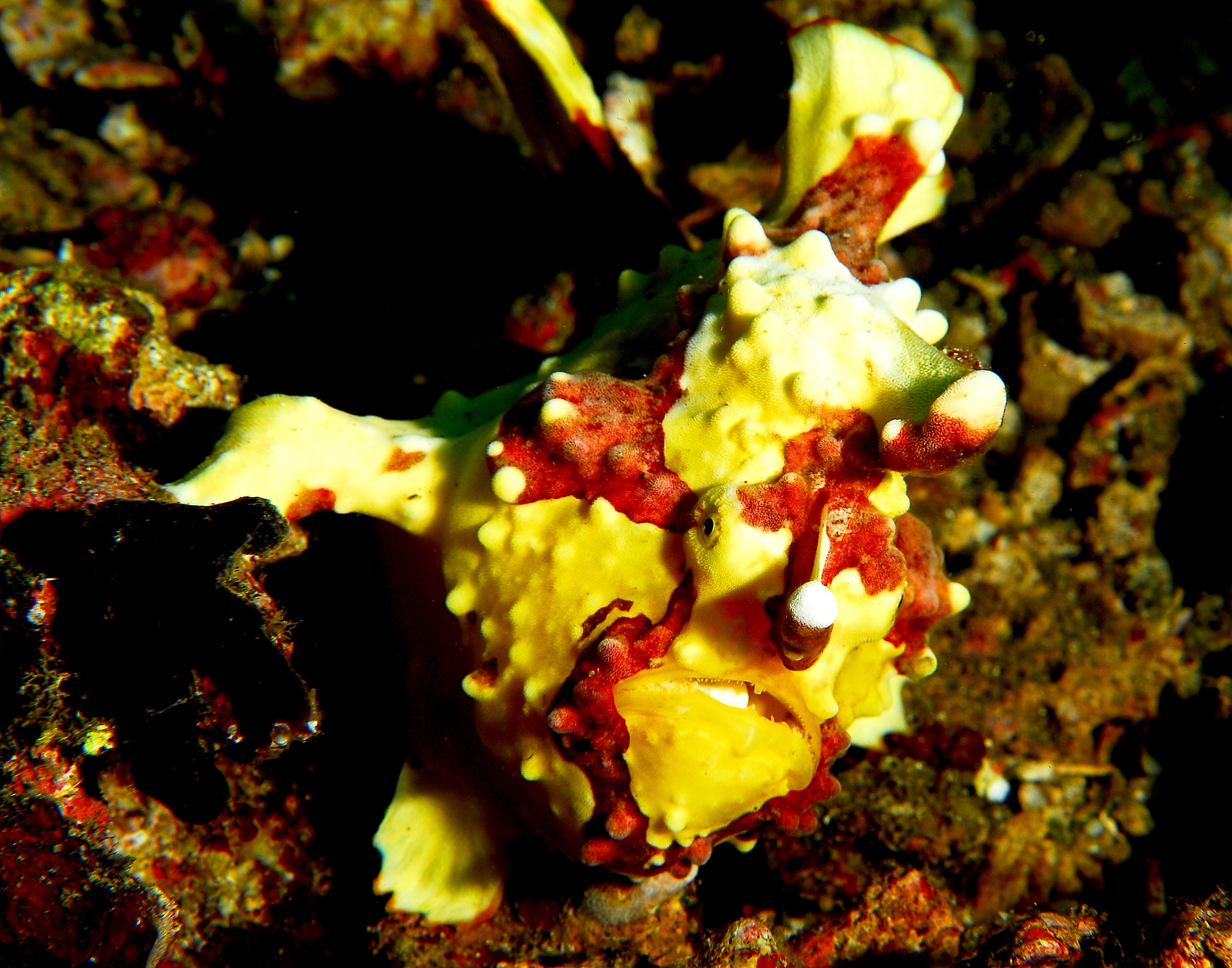 clown frogfish (Antennarius maculatus)clown frogfish